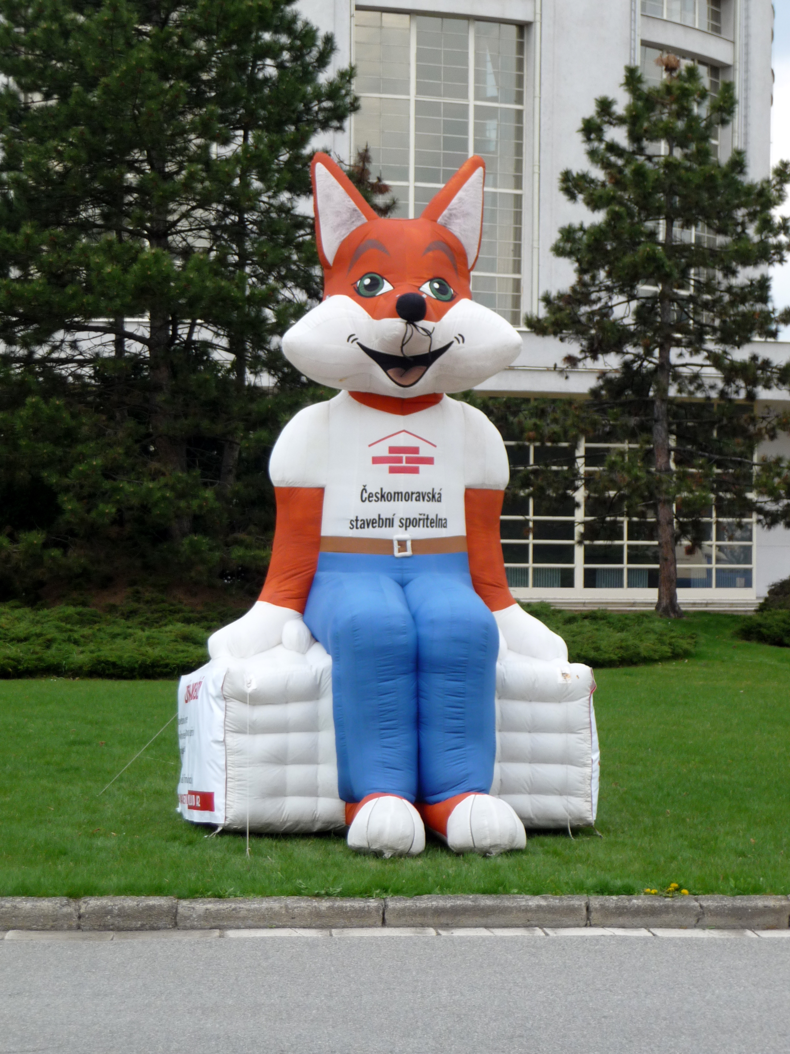 Fox mascot of Českomoravská stavební spořitelna, Building Fairs Brno 2011 -10-5-3-2◄►+2+3+5+10